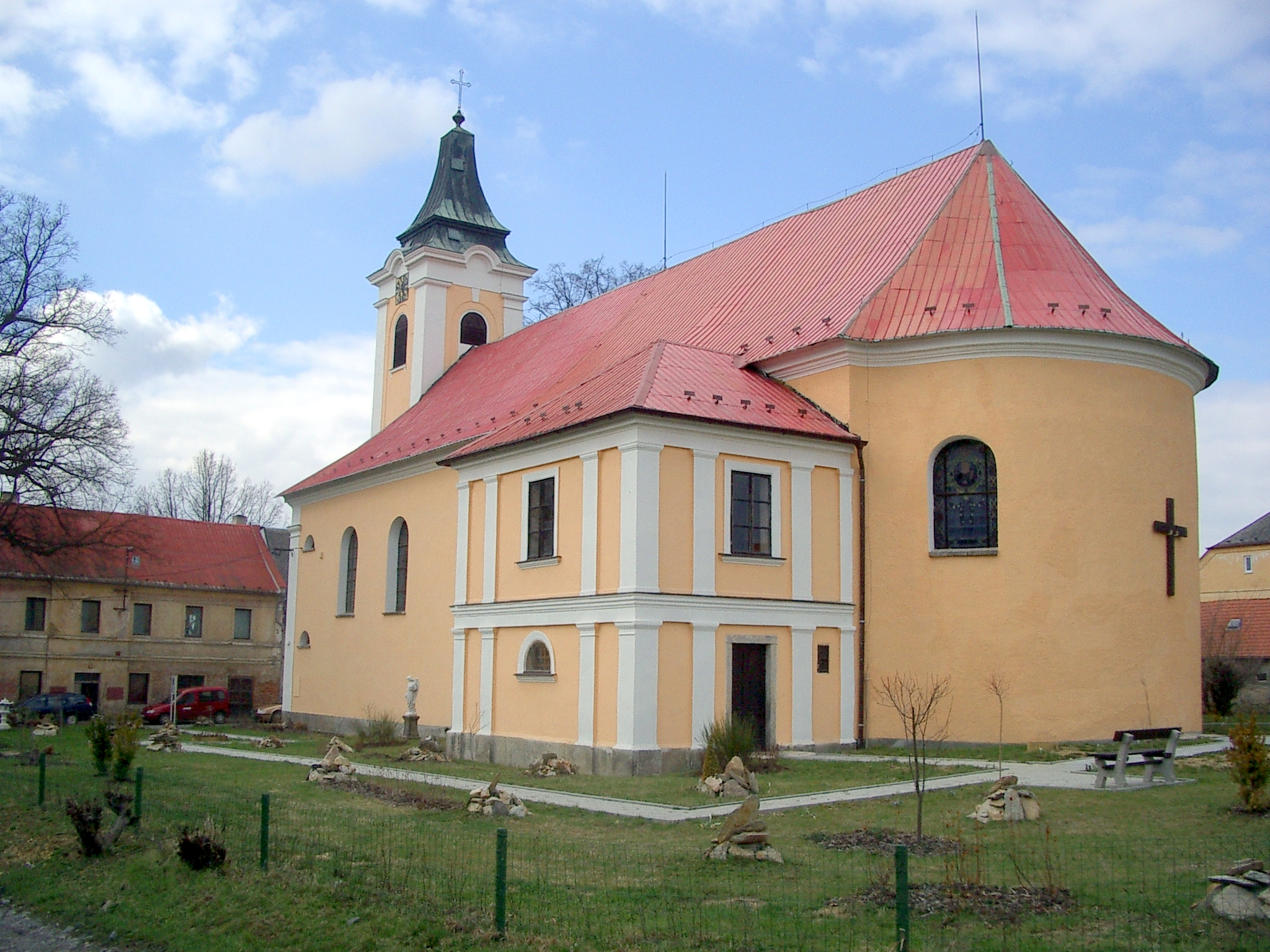 Nový Kostel, raising of the holy cross church